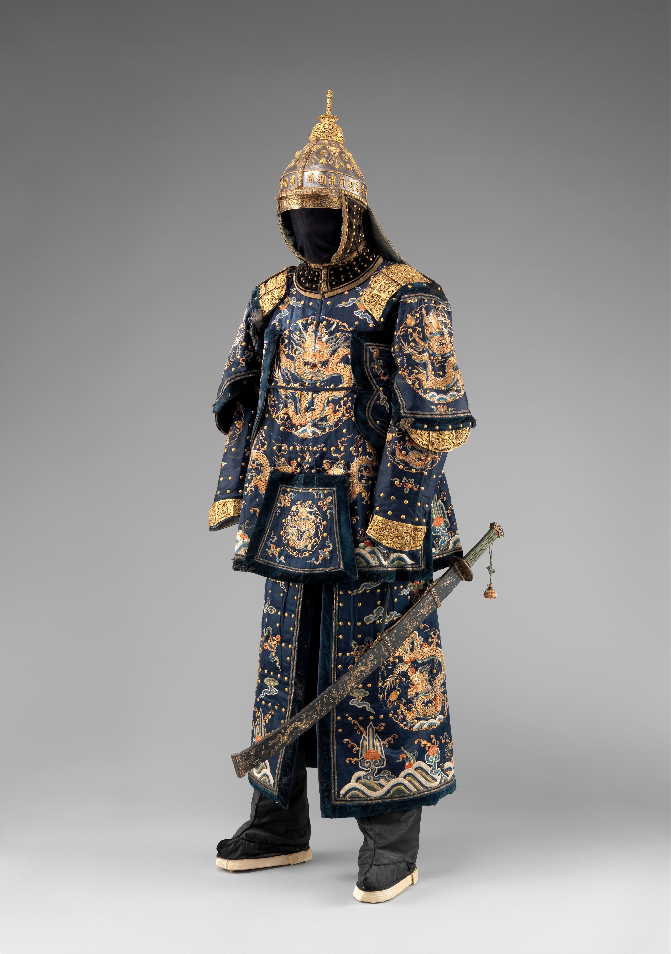 Chinese; Ceremonial armors for man (Dingjia) and horse; Armor for Man